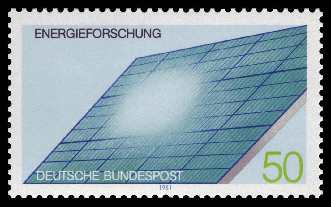 Energy research